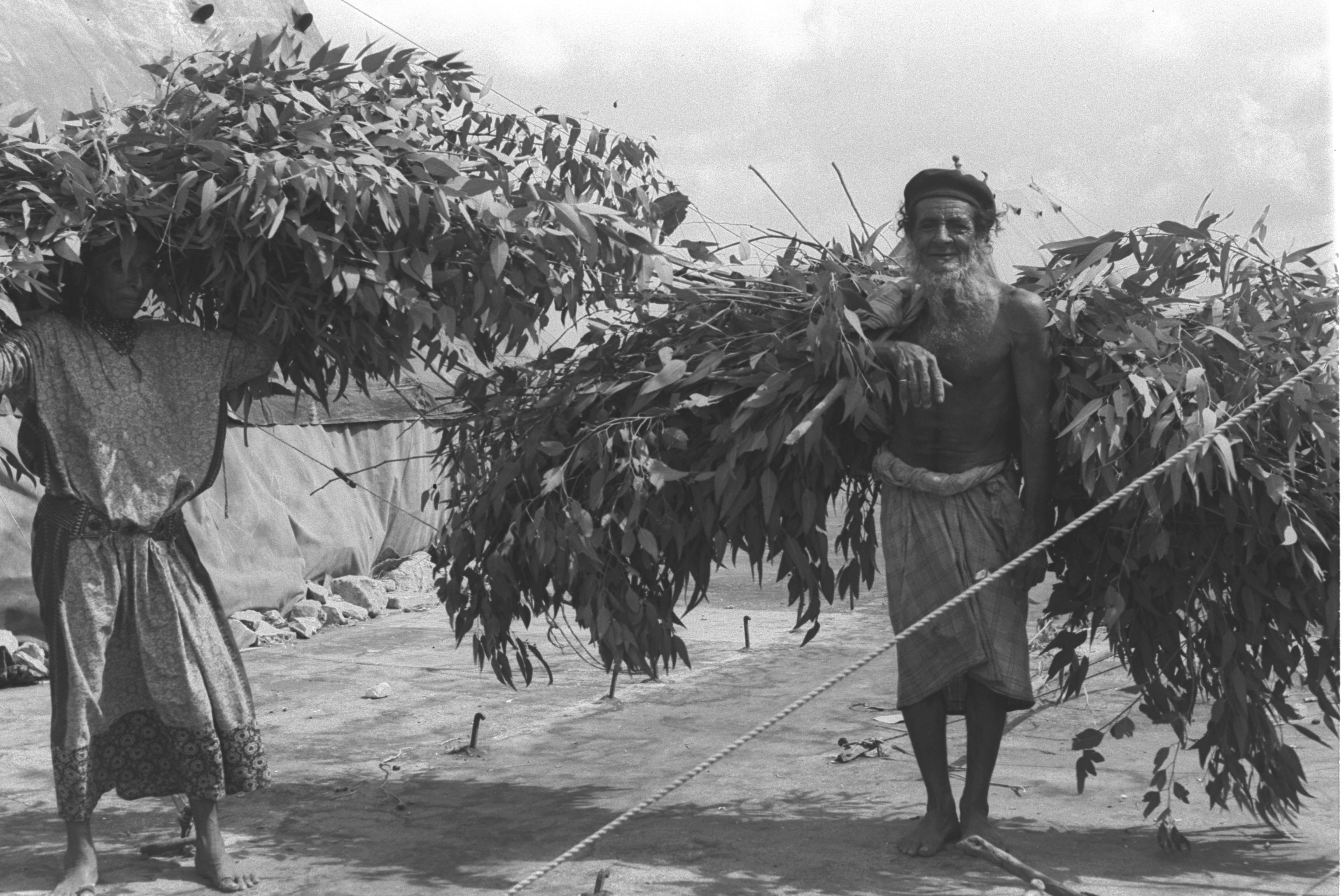 Two men bring branches of a Eucalyptus tree to build a sukkah for the Feast of Tabernacles at Ein Shemer immigrant's camp.